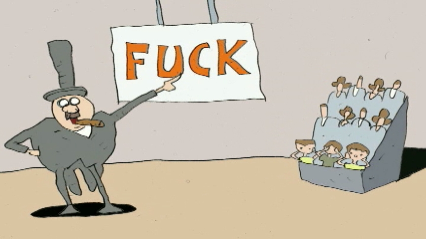 "Word Man Pointing", animation in Fuck (film)